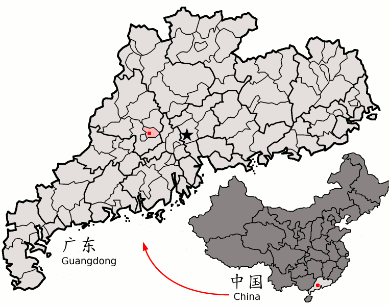 Location of Dinghu within Guangdong province of China